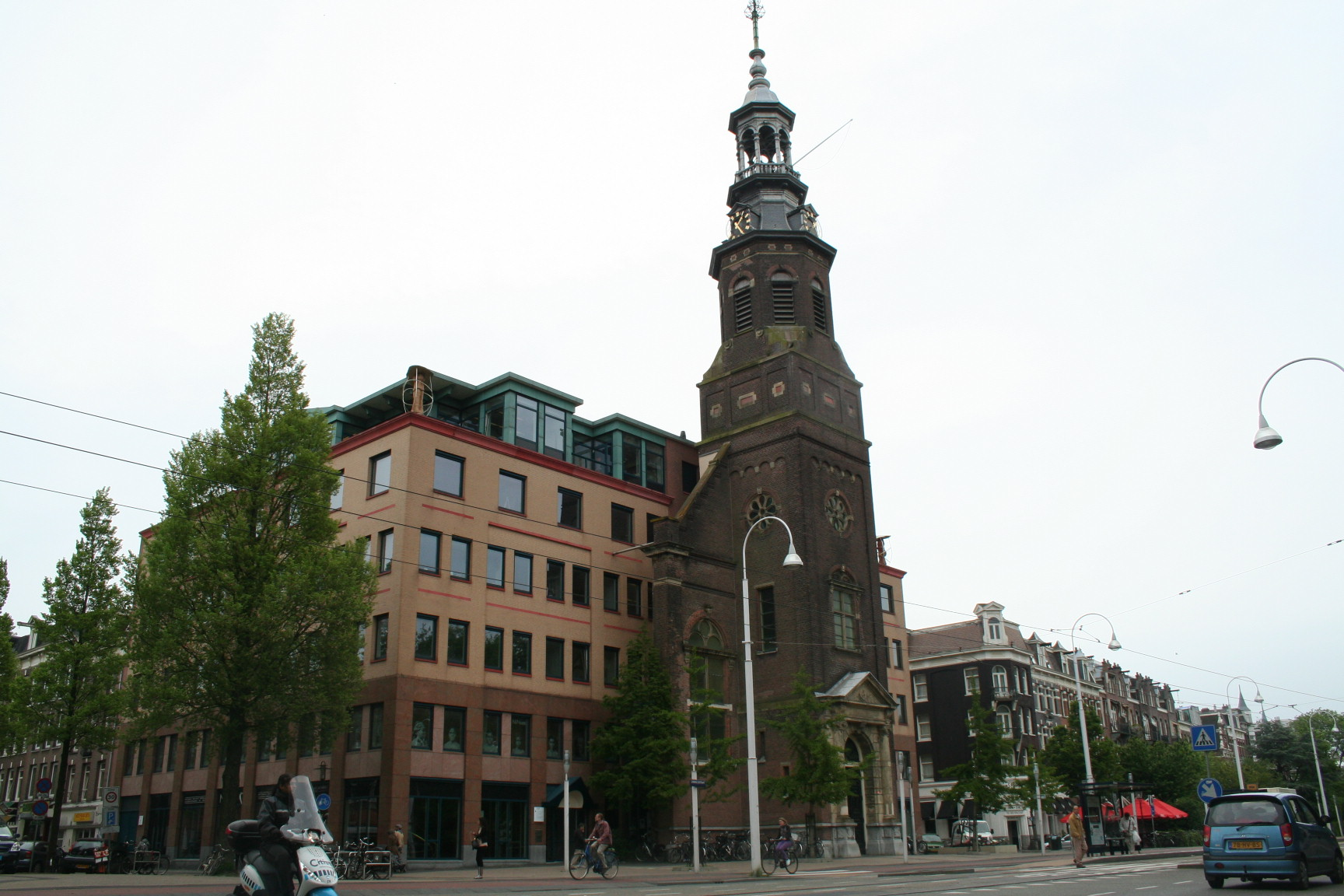 Radio Zamaneh Building in Amsterdam, 2010 with on the corner of the roof one part of Nicholas Popes Faith, hope and love.